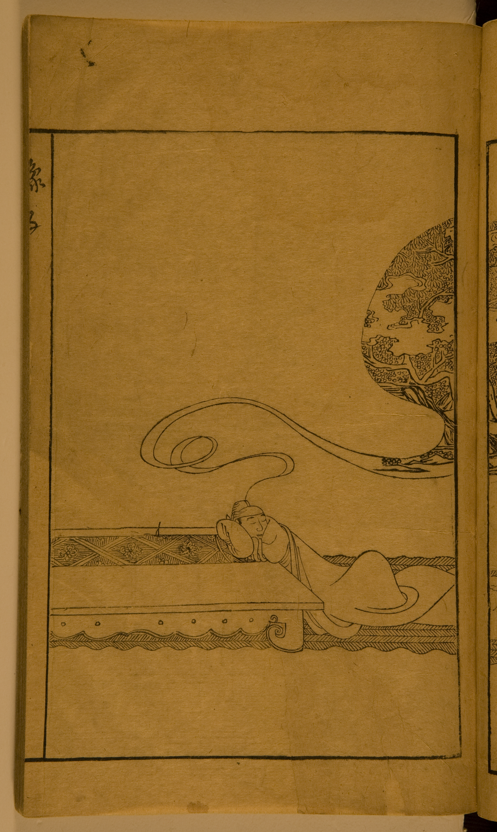 "The Yuan dynasty drama, Story of the Western Wing, by Wang Shifu, is the finest dramatic work of traditional China. It ranks with Tang Xianzu’s Peony Pavilion, Kong Shangren’s Peach Blossom Fan, and Hong Sheng’s Palace of Everlasting Life as one of the four great classical dramas of pre-modern China, and has had a far-reaching influence on the literature and theatrical history of China. The plot of the drama is a reworking of the short work, The Story of Yingying (also titled Encounter with an Immortal) by Yuan Zhen of the Tang dynasty. The famous line from the play, “I hope that all under heaven who know love will be able to unite as husband and wife,” subsequently became the ultimate wish for pure love. There have been many editions of Story of the Western Wing over the centuries. The Ming dynasty Secret Edition of the Northern Western Wing, Corrected by Mr. Zhang Shenzhi, published in the Chongzhen reign, is especially celebrated for its woodblock illustrations. The artist was the famous late-Ming painter Hong Shou. The compositions are superb and show extraordinary creativity, making this unique among the many illustrations of the tale. The illustration "Stealing a Look at the Letter" is very faithful to the plot and conveys the spirit of the situation perfectly; it is a masterpiece of ancient woodblock illustration."